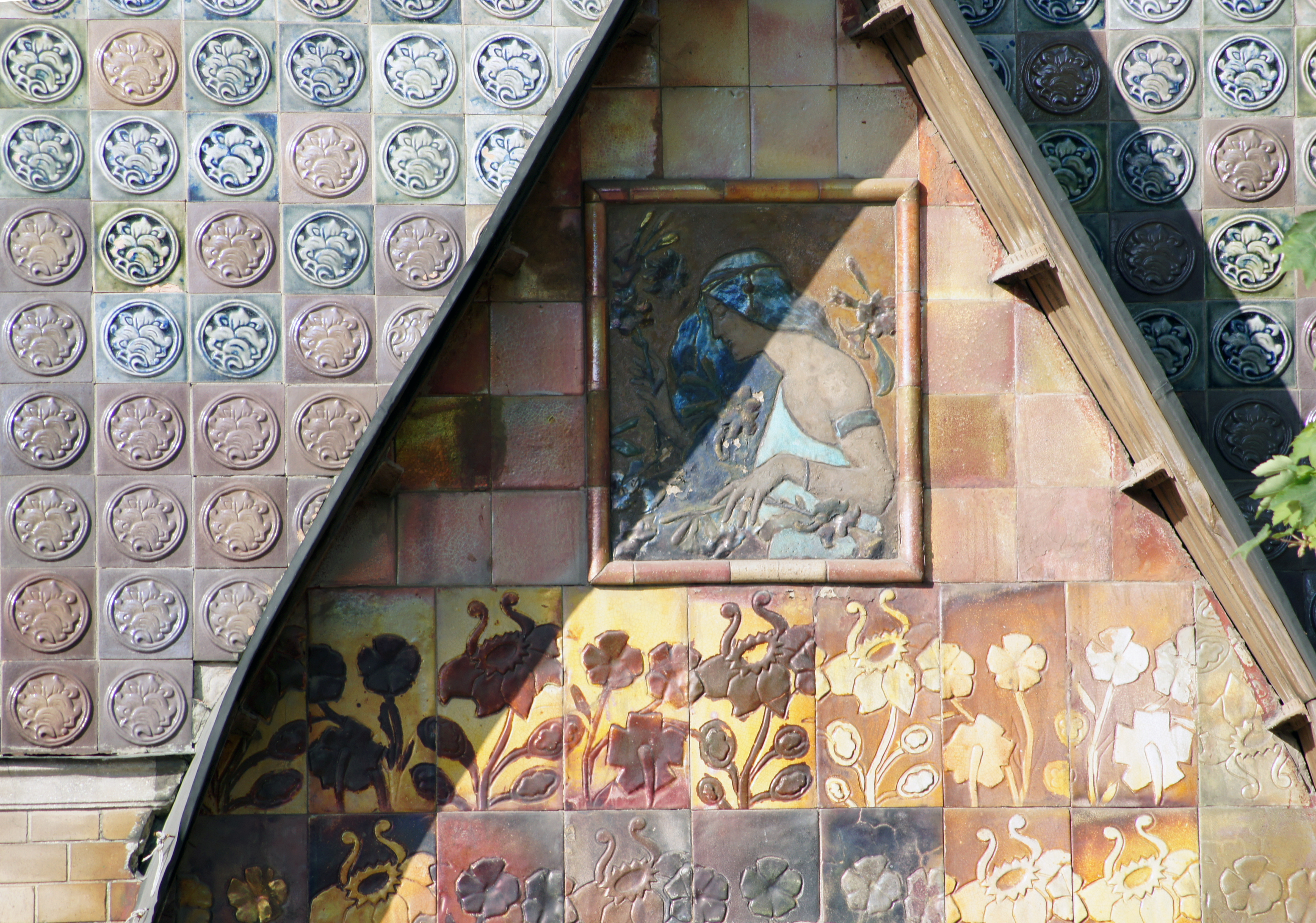 Sharonov House Taganrog